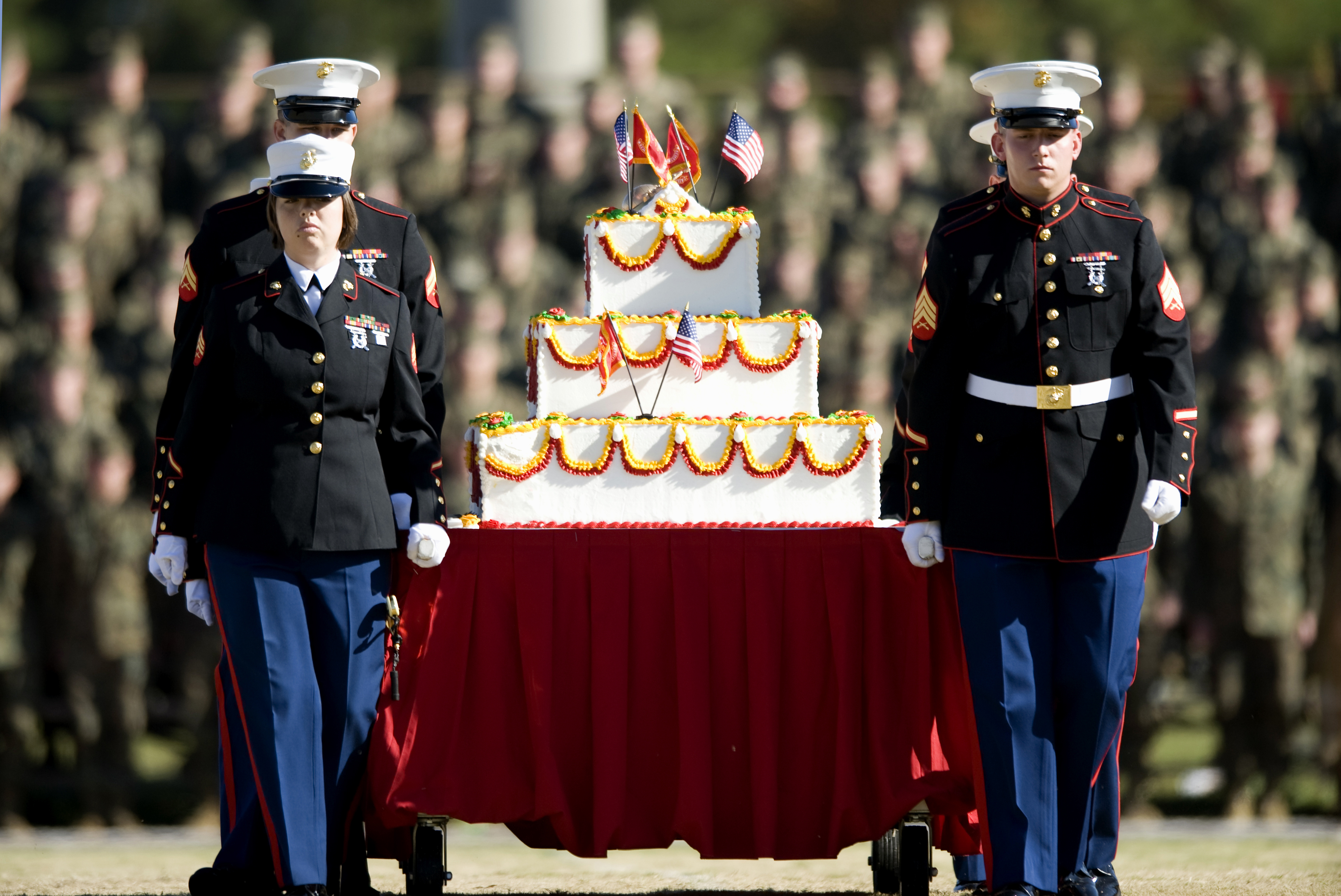 Camp Lejeune Marine Corps Birthday Celebration 2008: Camp Lejeune celebrated the 233rd Marine Corps birthday (November 10) with its annual Joint Daytime Ceremony at Liversedge Field. Pageant Marines wore period uniforms representing major conflicts (background).